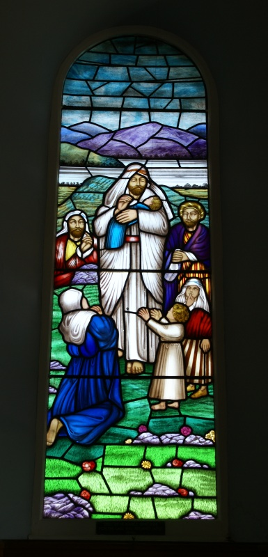 Craighouse Parish Church, Craighouse, Isle of Jura, Scotland. Stained glass window.